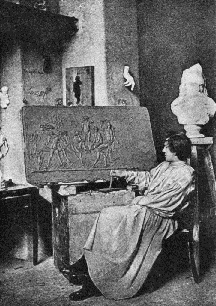 "Gerhart Hauptmann as a Sculptor. His Atelier in Rome."